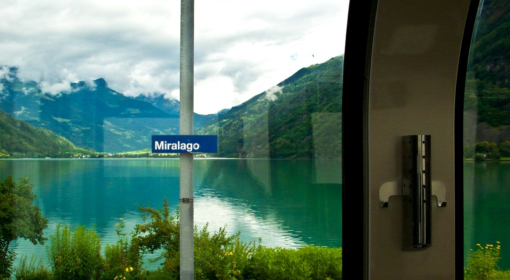 Bernina Express in Miralago, Switzerland